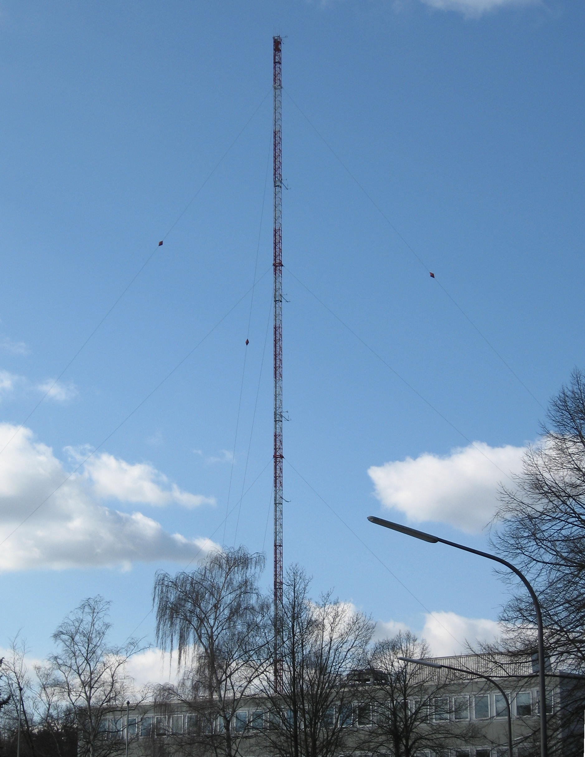 The picture shows the Forschungszentrum Karlsruhe, a German science center, member of the Helmholtz-Gemeinschaft. This picture: The Measurement tower